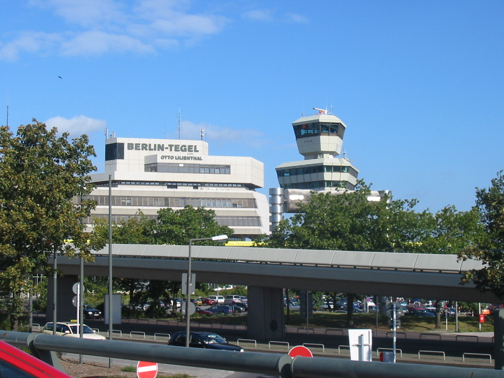 Berlin-Tegel Airport